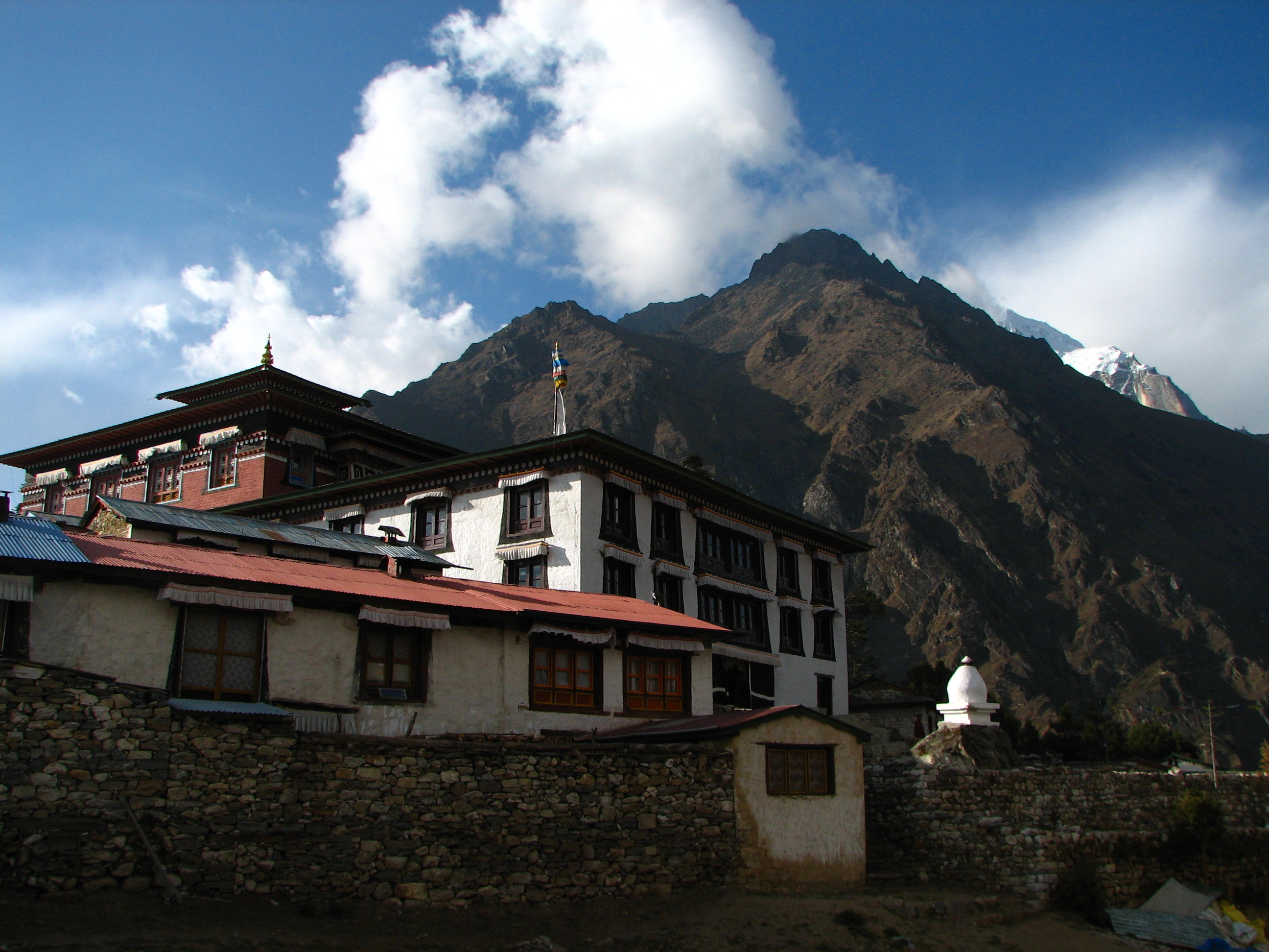 Monastery amidst Sagarmata peaks.